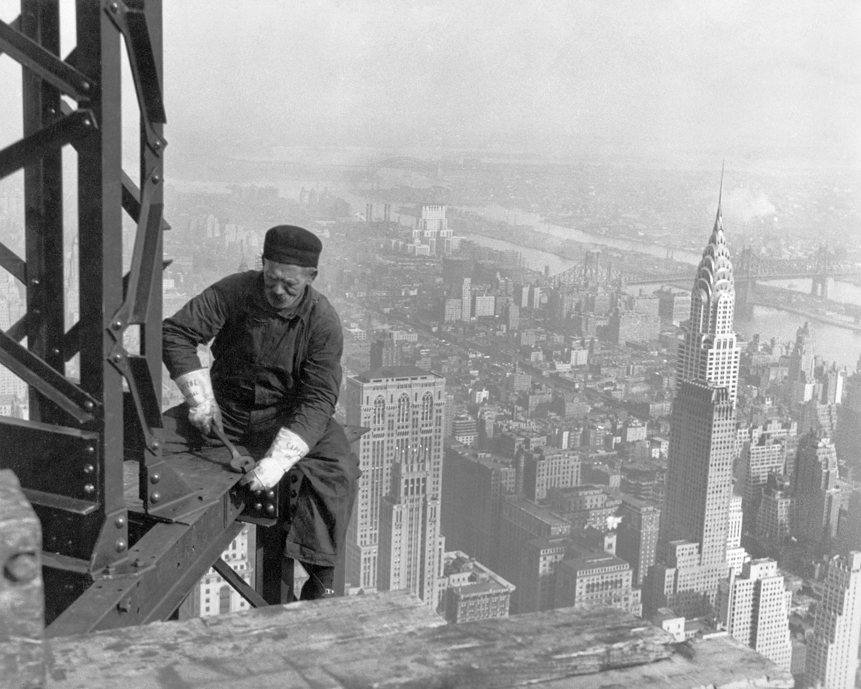 Photograph of a Workman on the Framework of the Empire State Building. Many structural workers are above middle-age.